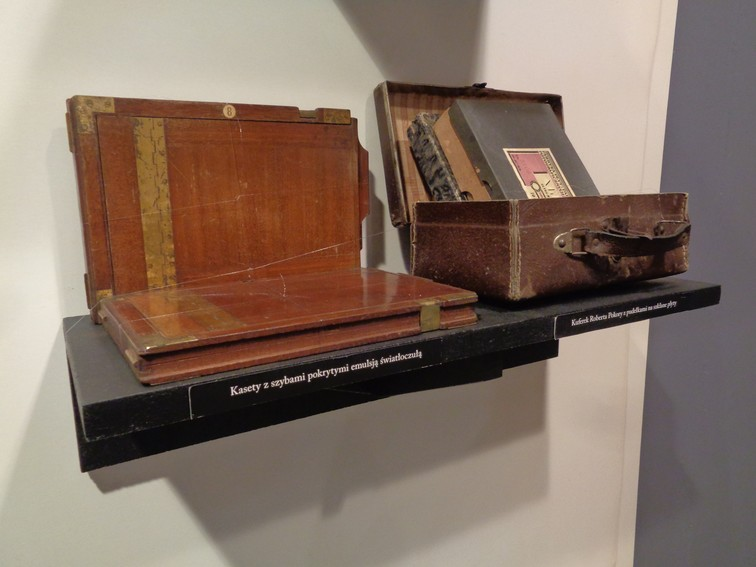 Robert Pokora's camera cassettes on the exhibition "Fotografie od szewca. Roberta Pokory świat na szklanych negatywach" ("Photographs from shoemaker. Robert Pokora's world on the glass negative" in Museum of the Kuyavy and Dobrzyń Region in Włocławek.